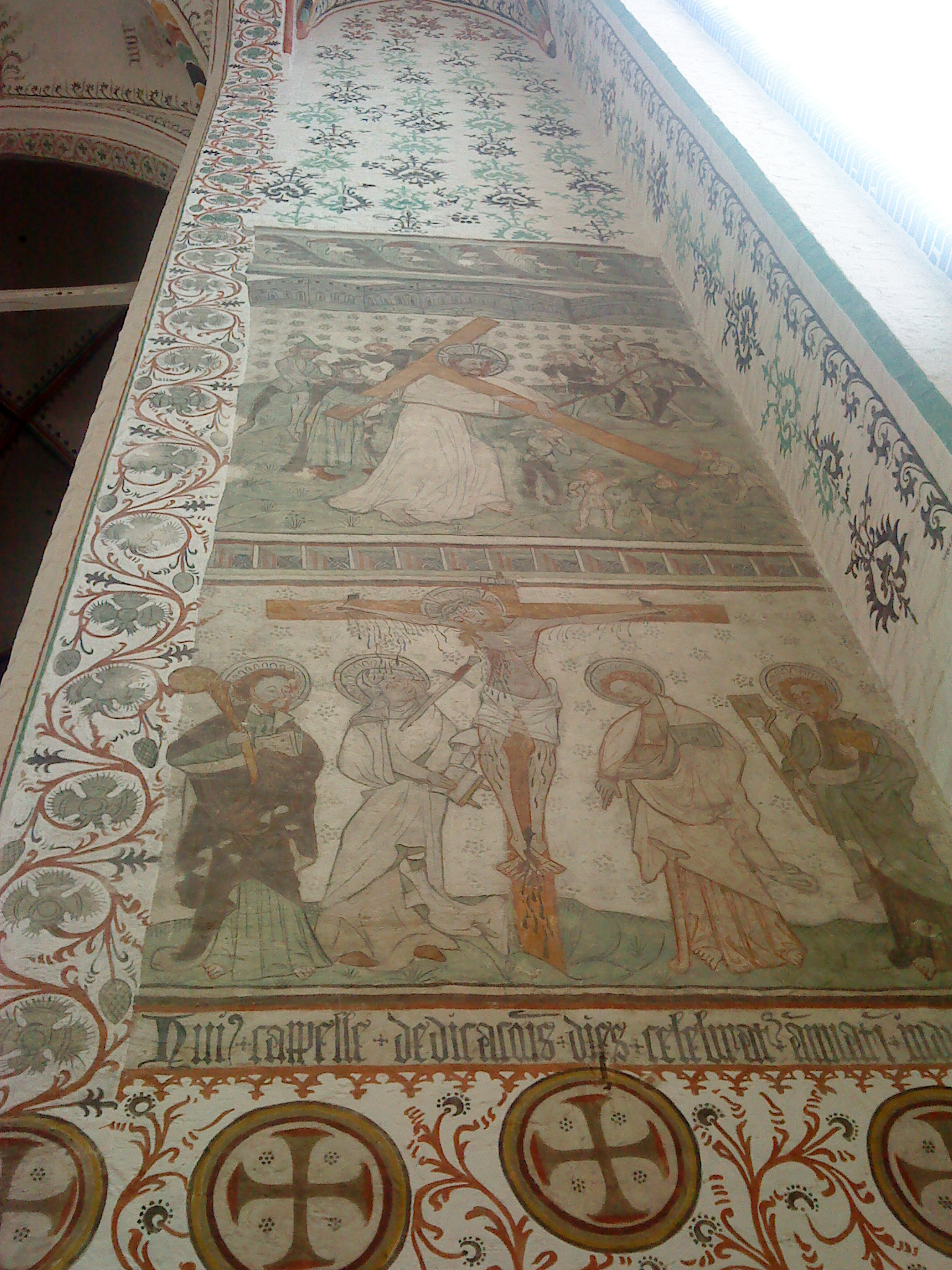 Late Gothic paintings (15th cty), St Mary's, Greifswald, Gedächtniskapelle